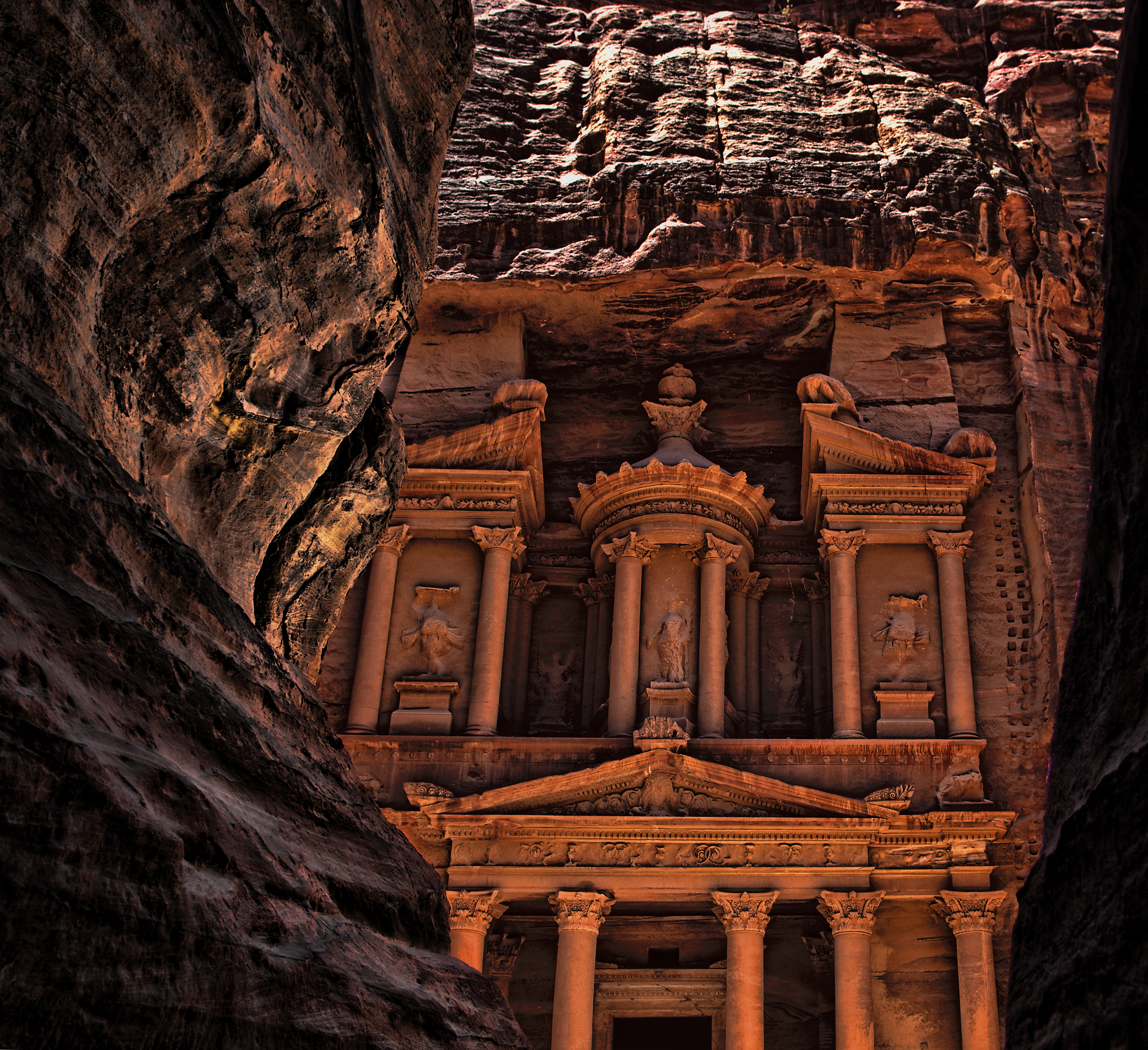 is one of the most elaborate temples in the ancient Jordanian city of Petra. As with most of the other buildings in this ancient town, including the Monastery (Arabic: Ad Deir), this structure was also carved out of a sandstone rock face. It has classical Greek-influenced architecture, and it is a popular tourist attraction.